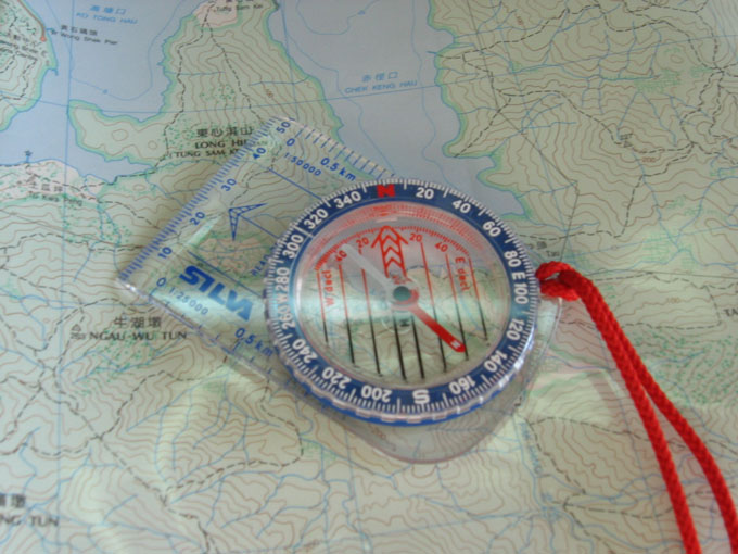 Baseplate compass A Silva classic baseplate compass